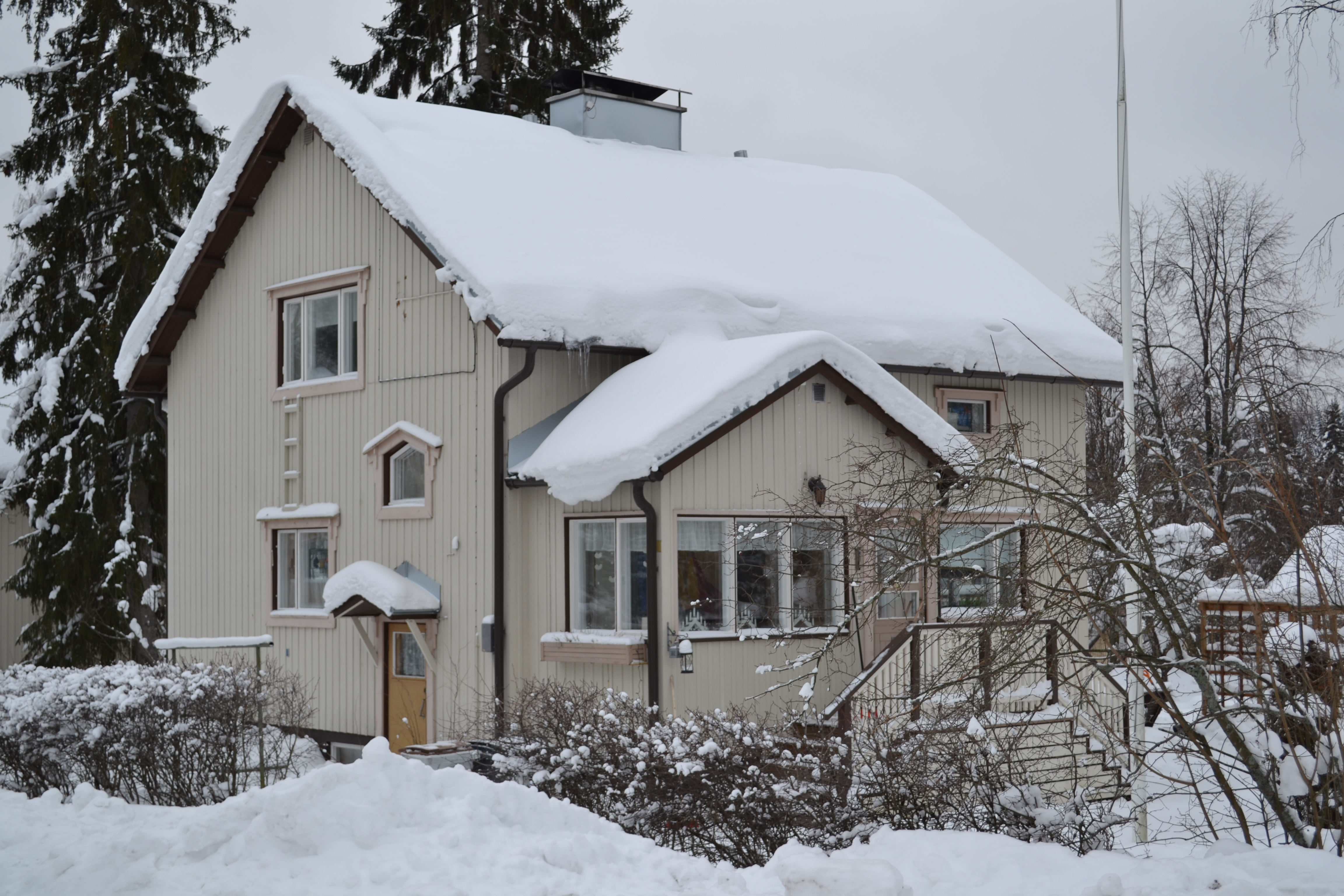 A house in the street Loukkukatu in the area Köhniö in Kypärämäki, Jyväskylä